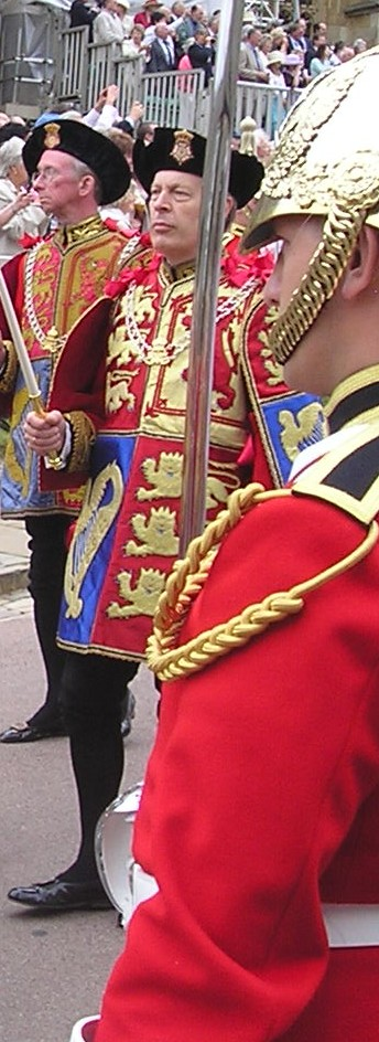 William Hunt, Windsor Herald, in procession to St George's Chapel, Windsor Castle for the annual service of the Order of the Garter. In the background is Henry Paston-Bedingfeld, York Herald. In the foreground is a dismounted member of the Life Guards regiment of the Household Cavalry.